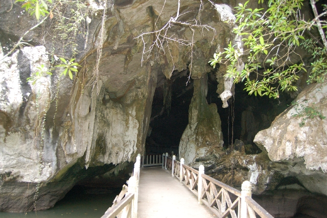 Entrance to the Bat Cave (Gua Kelawar) in Langkawi